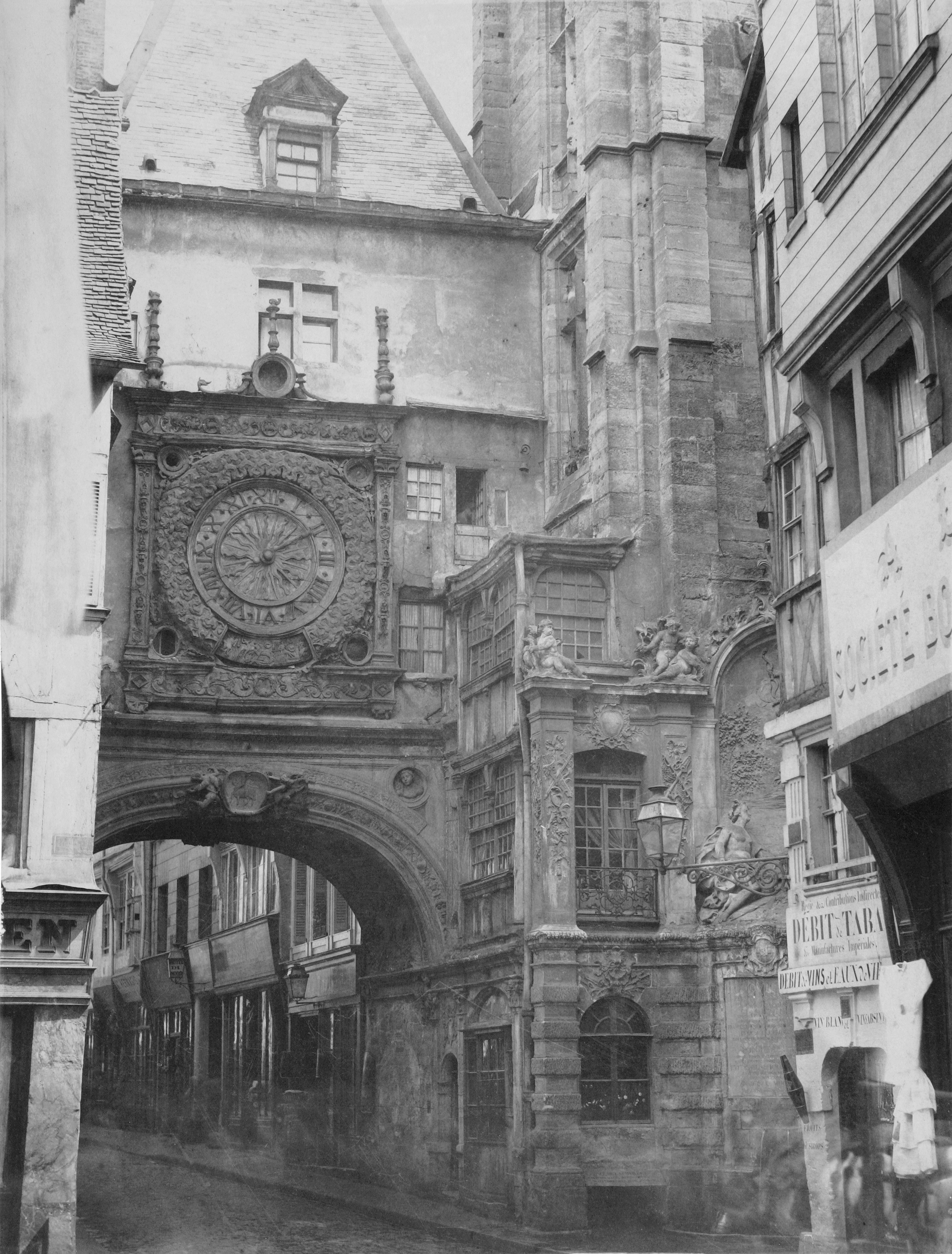 Gros Horloge, Rouen by the Bisson brothers. Signed. Photo taken before 1864, when the Bisson brothers went their separate ways.